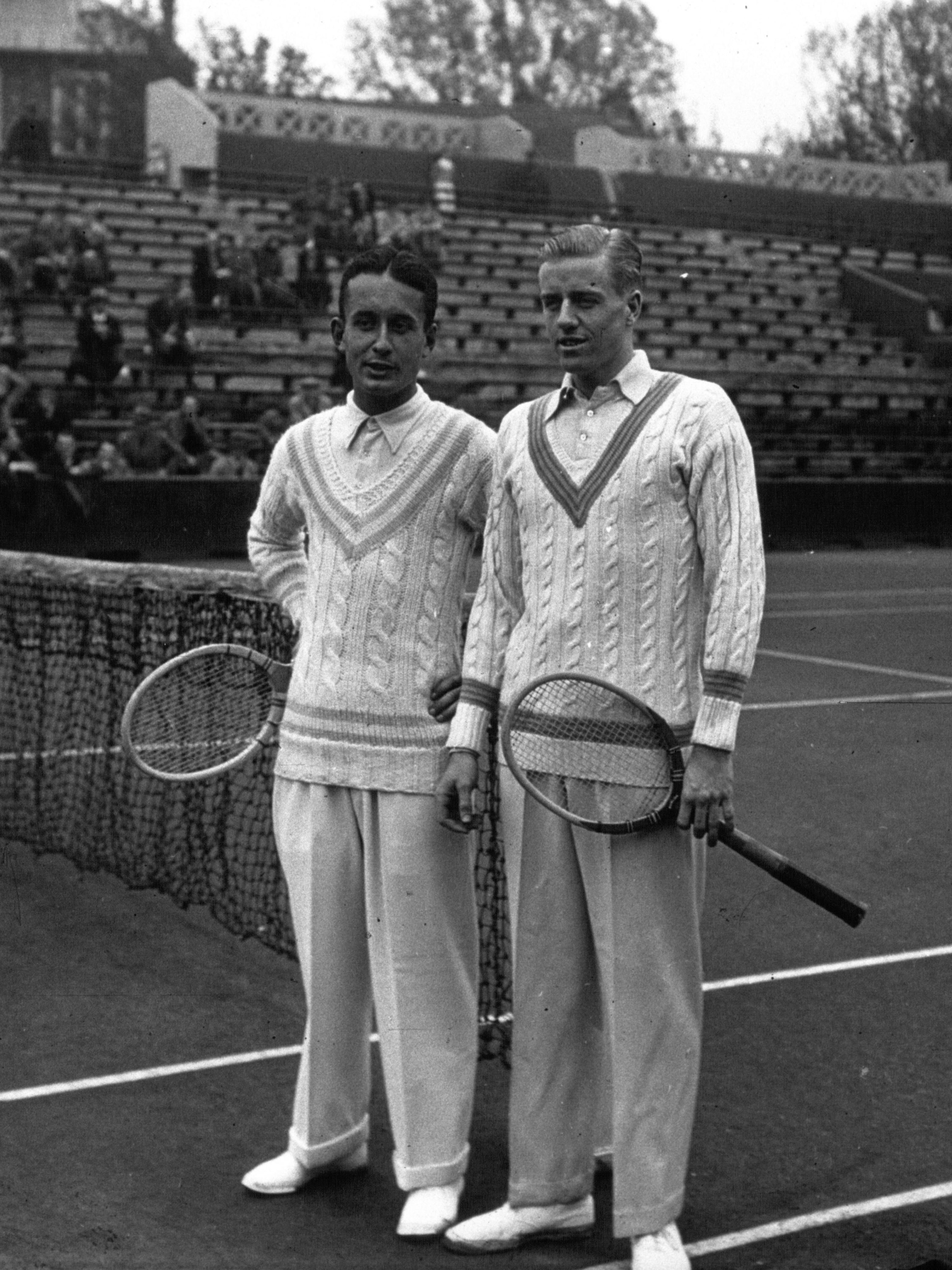 French tennis player André Merlin (left) and American tennis player Sidney Wood (right) in 1932.